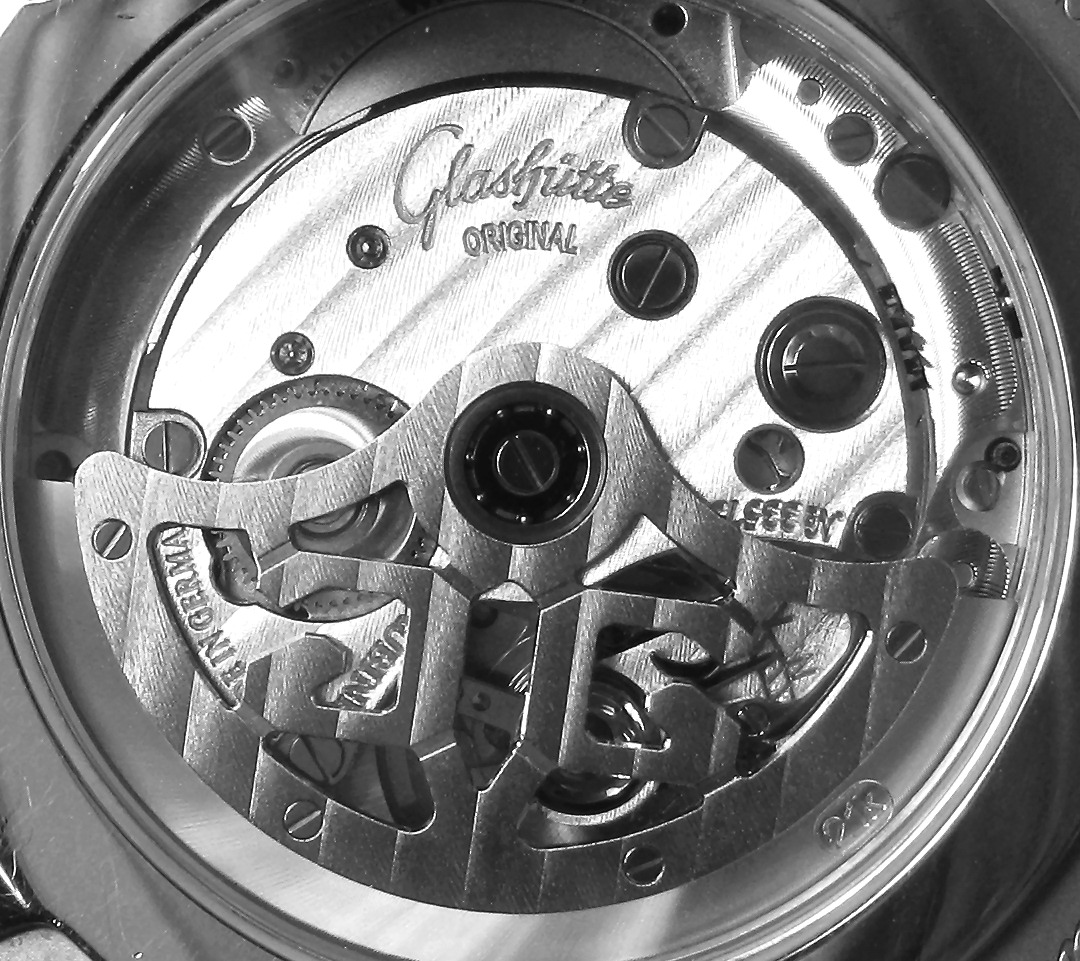 Glashütte Original Kaliber 39